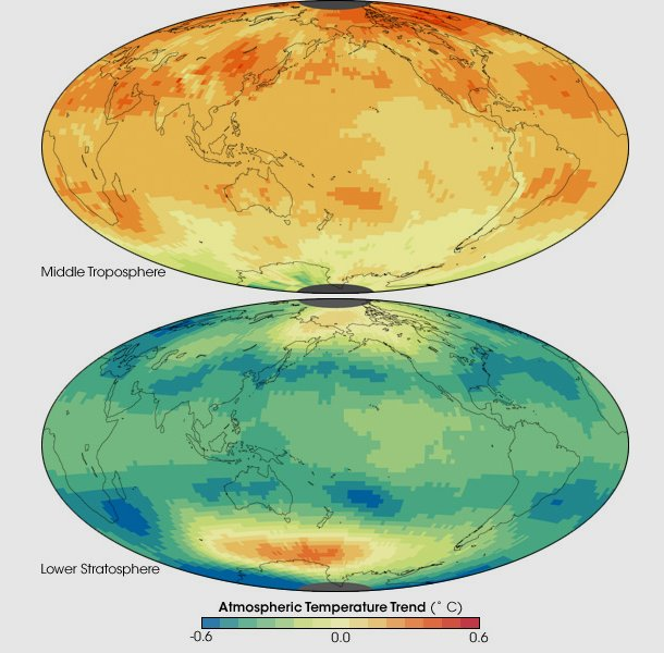 These images show temperature trends in two thick layers of the atmosphere as measured by a series of satellite-based instruments between January 1979 and December 2005. The top image shows temperatures in the middle troposphere, centered around 5 kilometers above the surface. The lower image shows temperatures in the lower stratosphere, centered around 18 kilometers above the surface. Oranges and yellows dominate the troposphere image, indicating that the air nearest the Earth’s surface warmed during the period. The stratosphere image is dominated by blues and greens, indicating cooling.